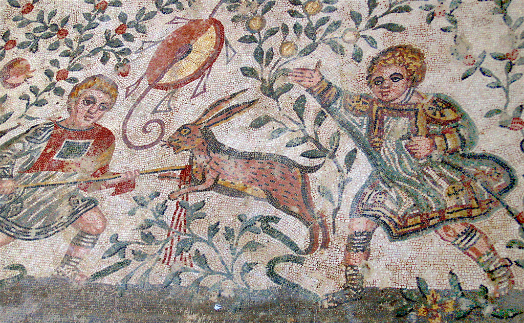 A 4th-century Roman mosaic of young boys hunting a rabbit, from the Child Hunters Mosaic, Villa Romana del Casale, Piazza Armerina, Sicily/Sicilia, Italy/Italien.